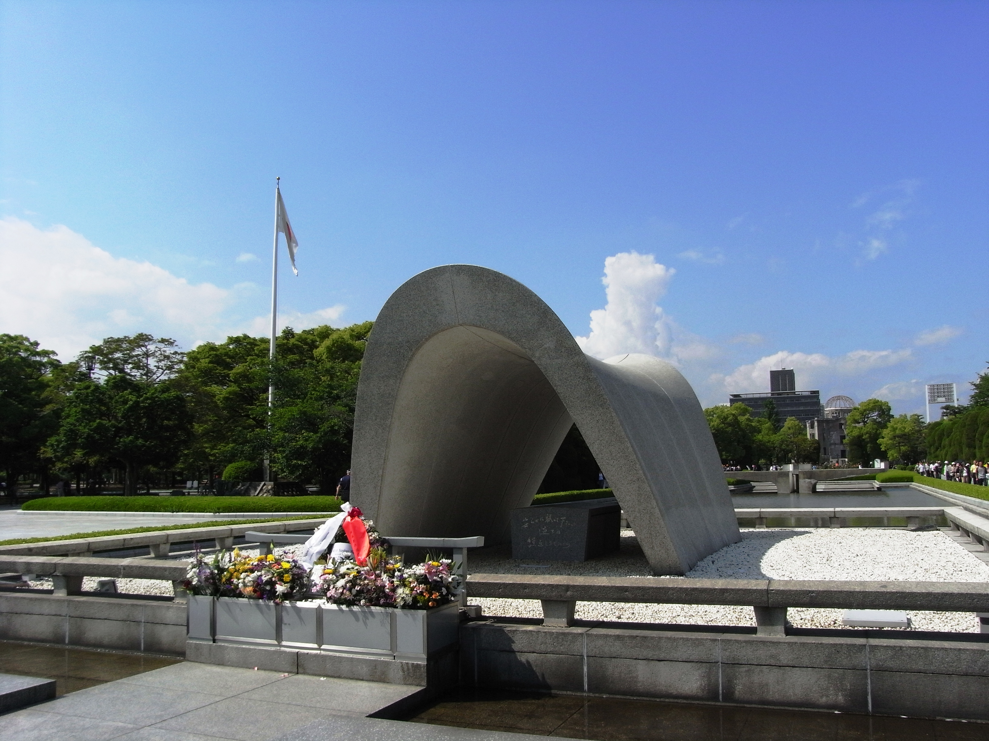 HiroshimaCenotaph(原爆死没者慰霊碑)